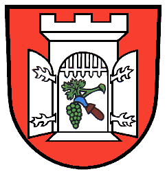 Coat of arms of Jestetten